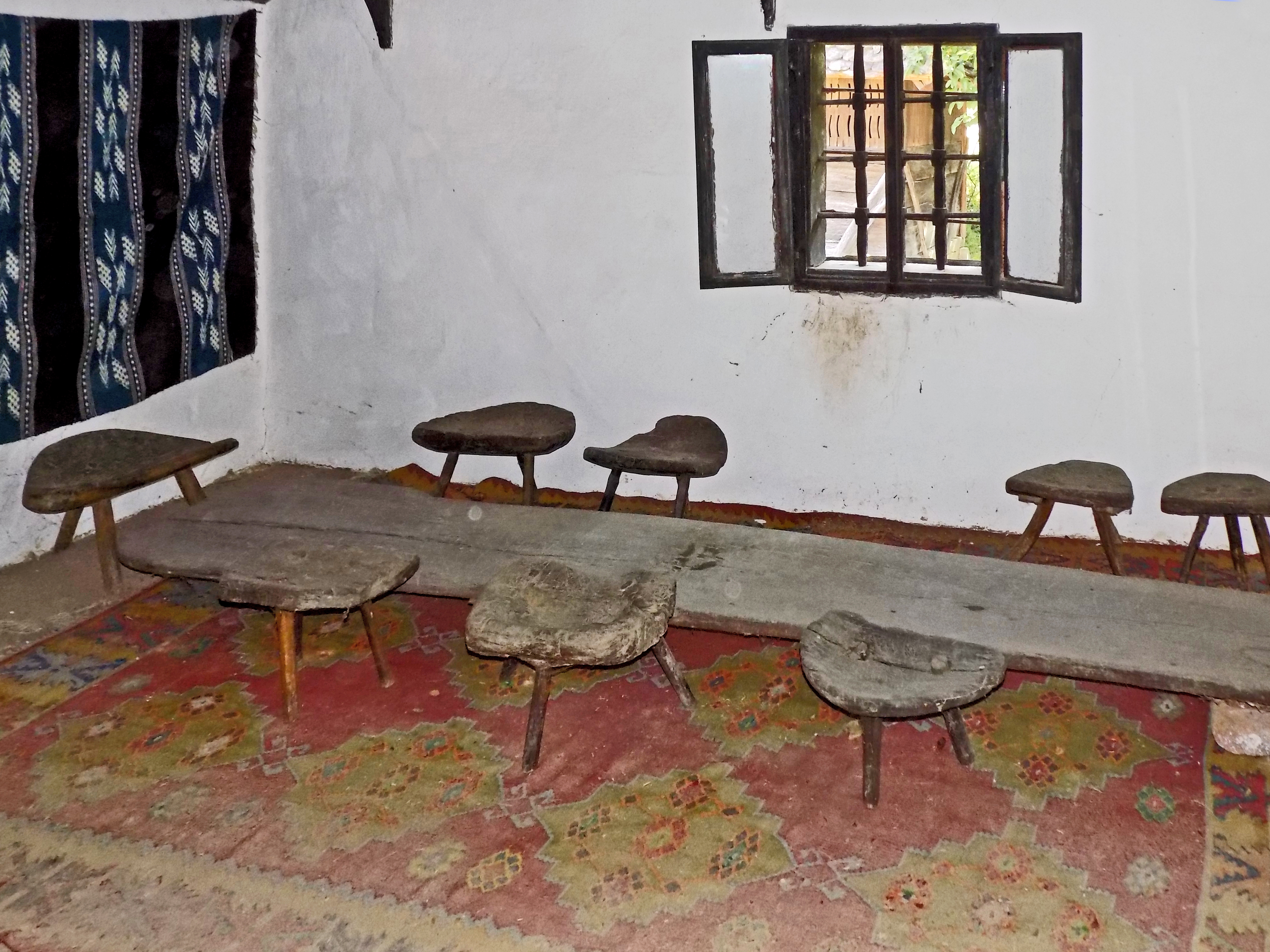 House of the Matic family - Table in the guestroom